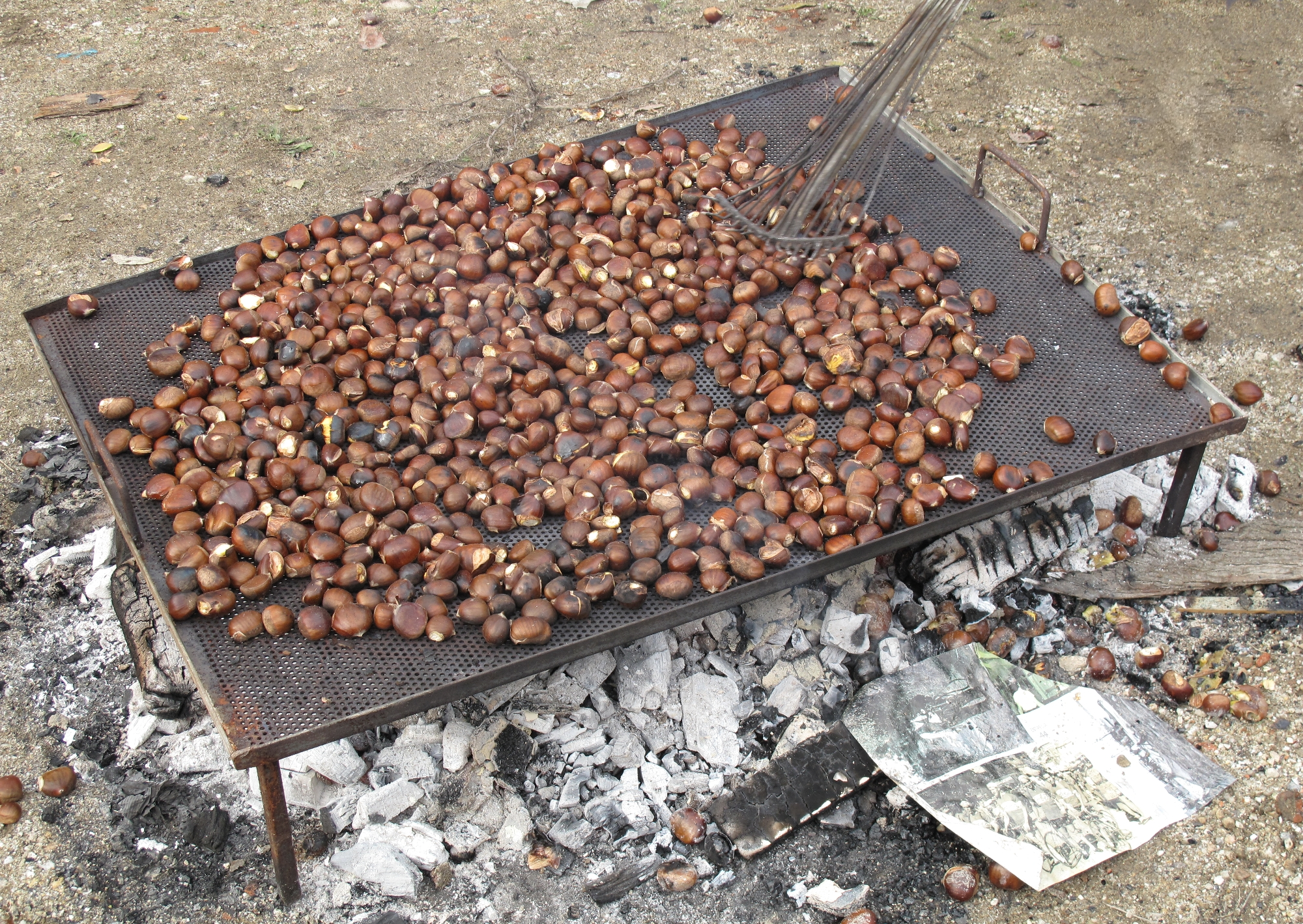 Chestnut, GaliciaGalego: Castañas, magosto